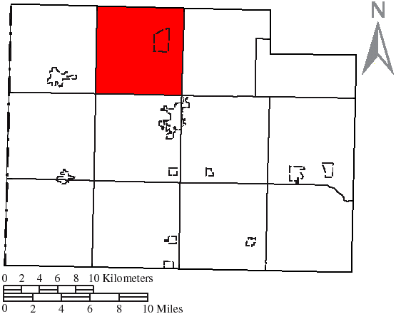 Made by the US Census and modified by myself